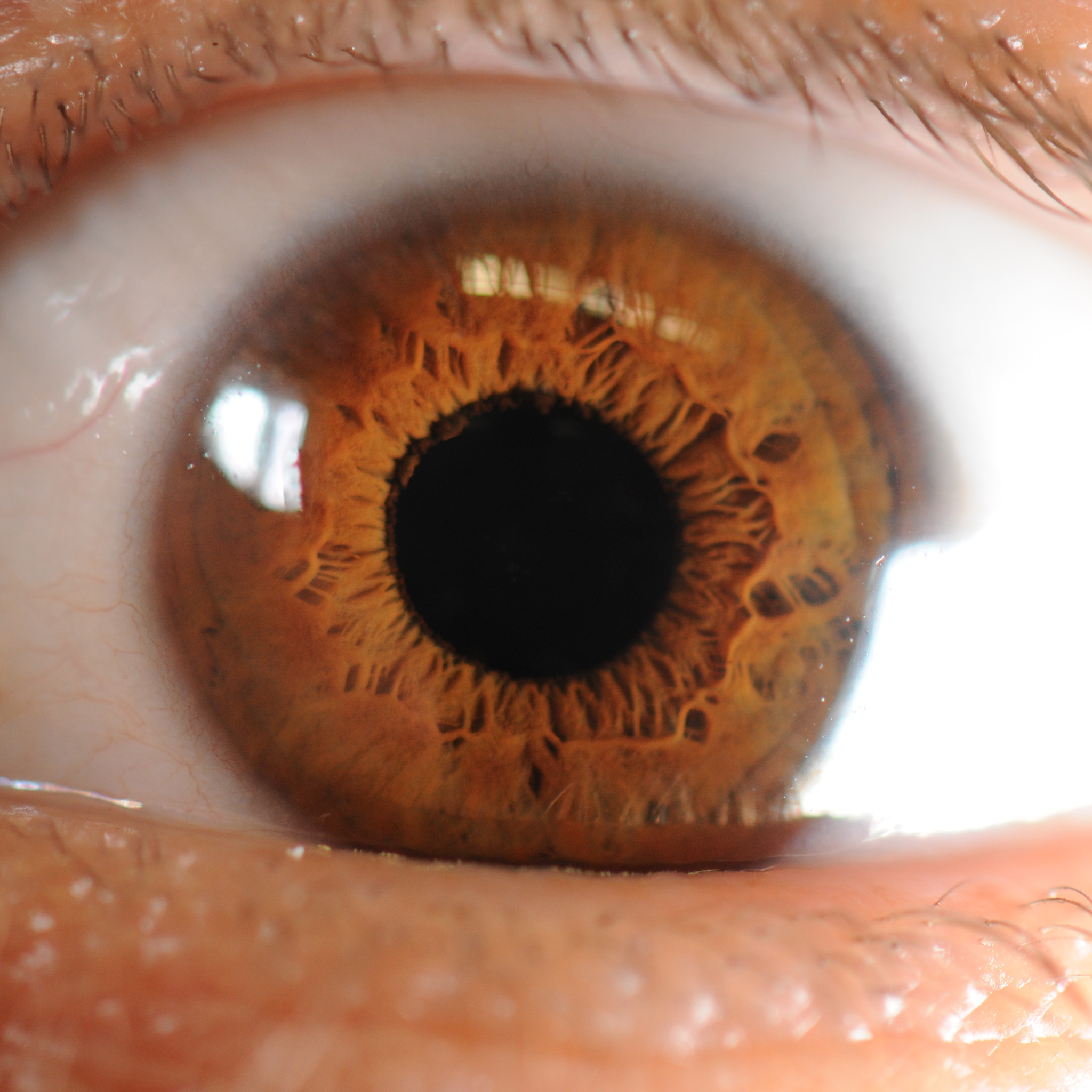 macro photo of the human eye, lit with flat angle to show the structure of the iris